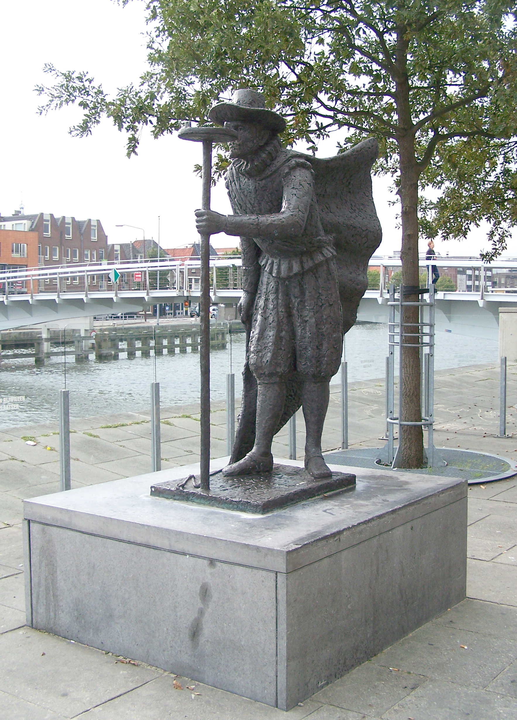 Statue of engineer Adriaan Anthonisz, architect of the defencewalls of Alkmaar. Made by John Bier in 1996, placed at the Noorderkade in Alkmaar in 1997 as a gift of the constructeur of the mall Noorder Arcade, J.M. Deurwaarder Bouwgroep.